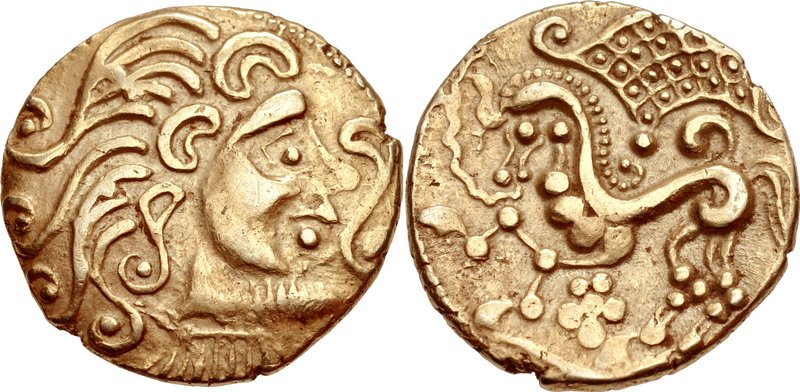 CELTIC, Northeast Gaul. Parisii. 2nd century BC. AV Stater (22mm, 7.36 g, 3h). Class IV (”au nez retroussé”). Celticized head of Apollo right; ornament before / Celticized horse galloping left; the charioteer devolved into a fan shape with checkerboard design, rosette below. Philippeios type.